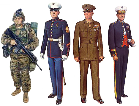 Collage of United States Marine Corps uniforms, made from combining individuals from plates I, IV, V, and XIV of the USMC uniform plates series